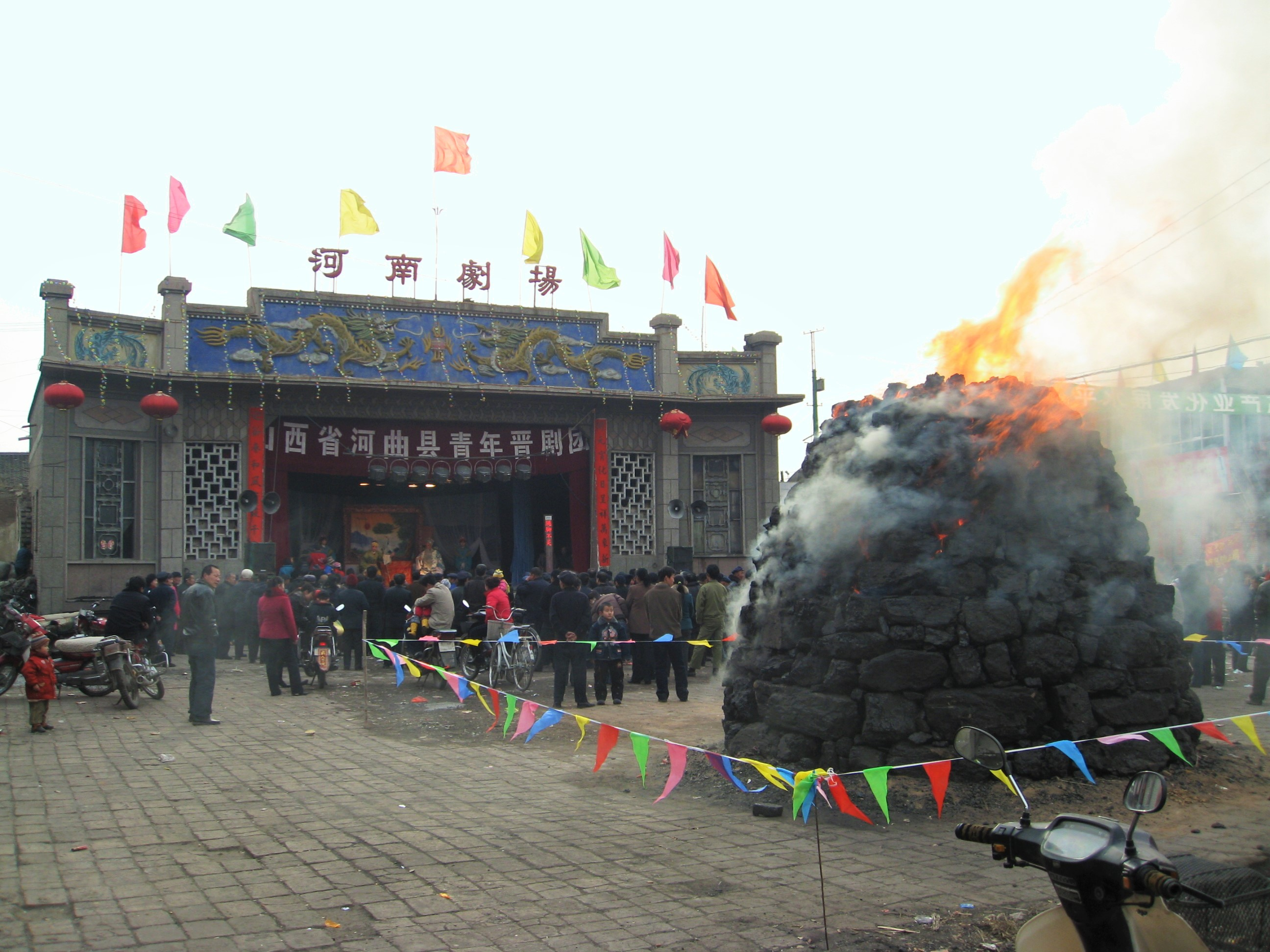 Charcoal bonfire and theater play performed as prayers for good harvest at a folk temple in Hequ, Xinzhou, Shanxi, China.